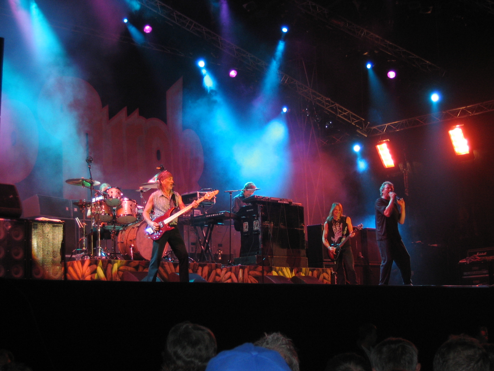 Deep purple in 2004